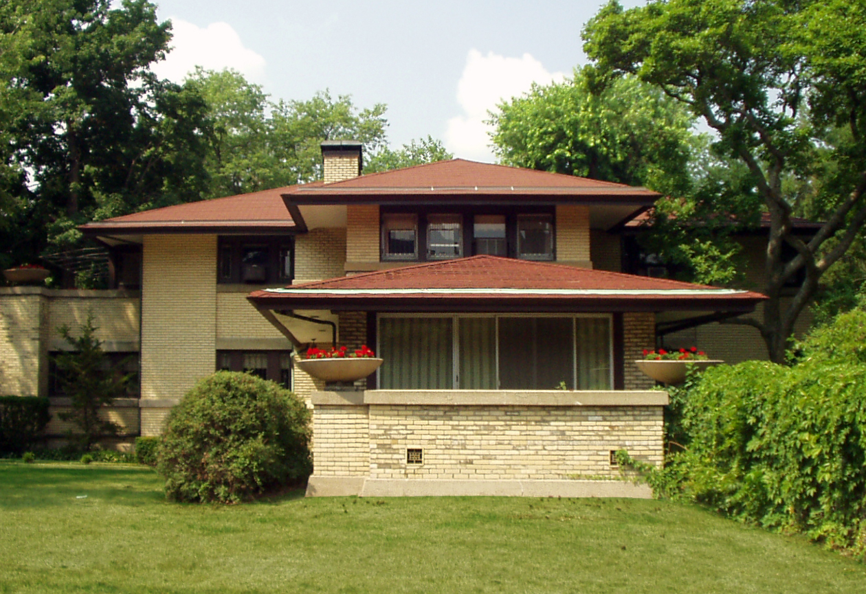 Francis W. Little House I (1902) by Frank Lloyd Wright in Peoria, Illinois This photo has had minor editing including cropping and color adjustment to green the grass.